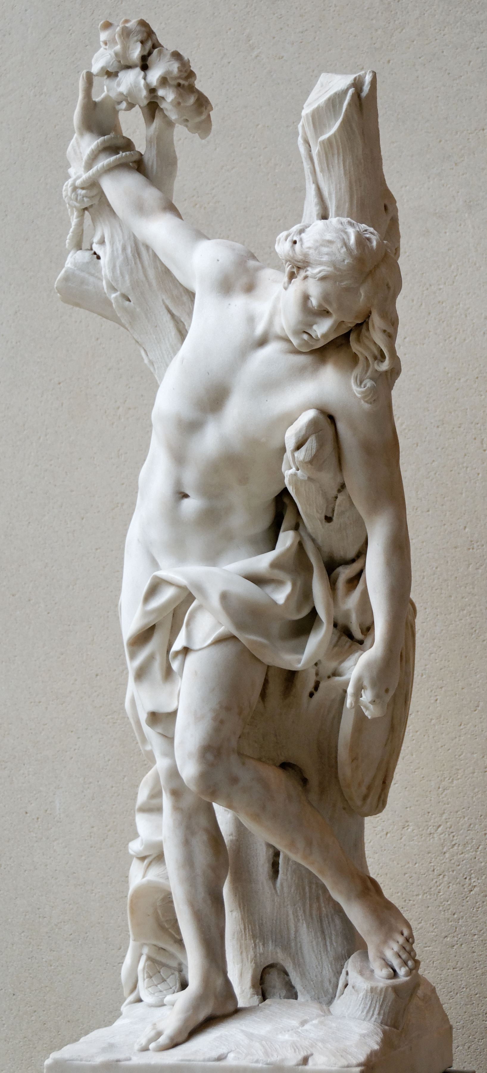 St Sebastian. Marble, reception piece for the French Royal Academy, 1712.